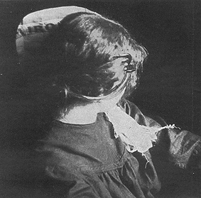 Photograph of Eva C showing fraud ectoplasm made from a Paris newspaper, Le Miroir.